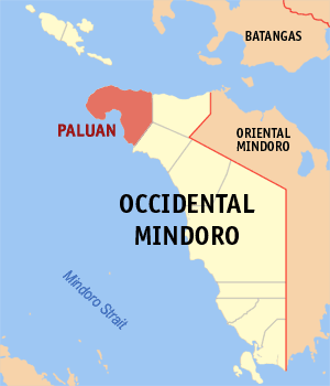 Map of Occidental Mindoro showing the location of Paluan